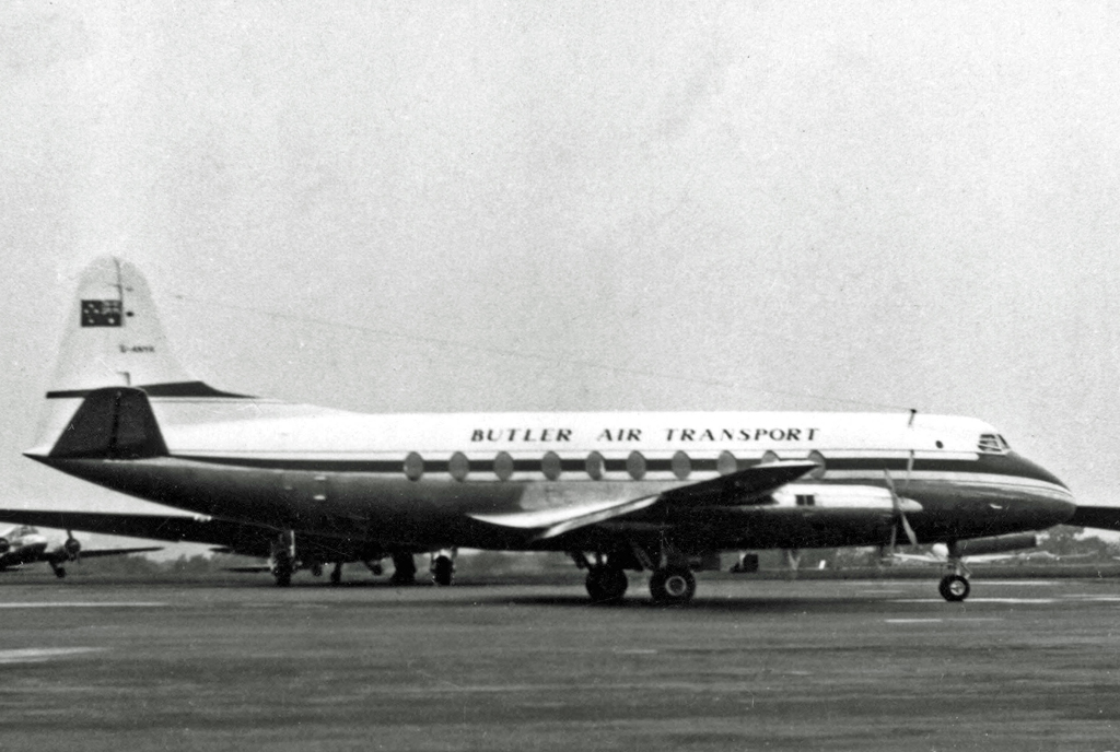 Vickers Viscount 757 G-ANYH of Butler Air Transport at Blackbushe Airport Hants shortly before delivery in 1956